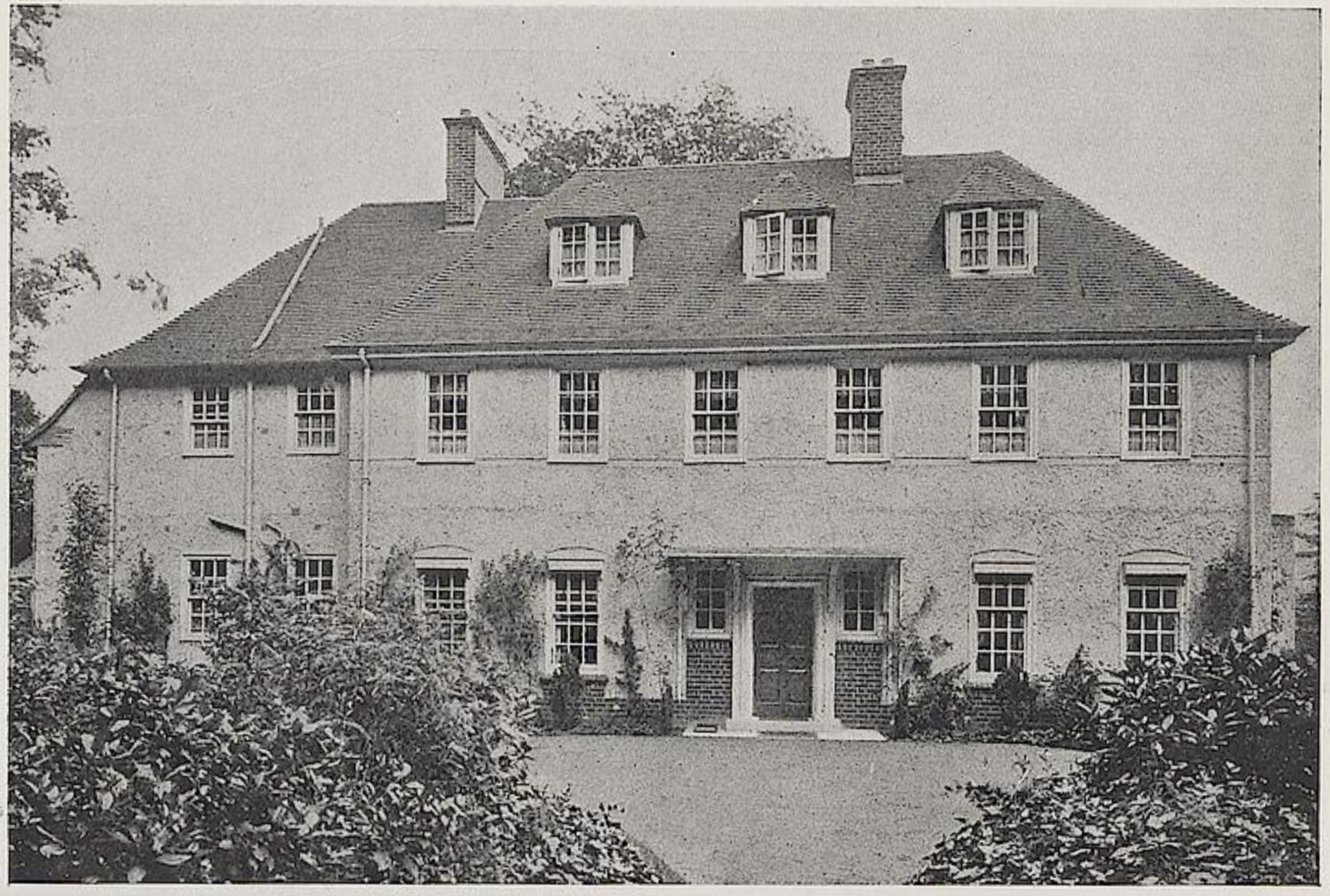 Alstonfield, Esher, Surrey by Oswald Partridge Milne, Architect. From the Studio Yearbook 1908